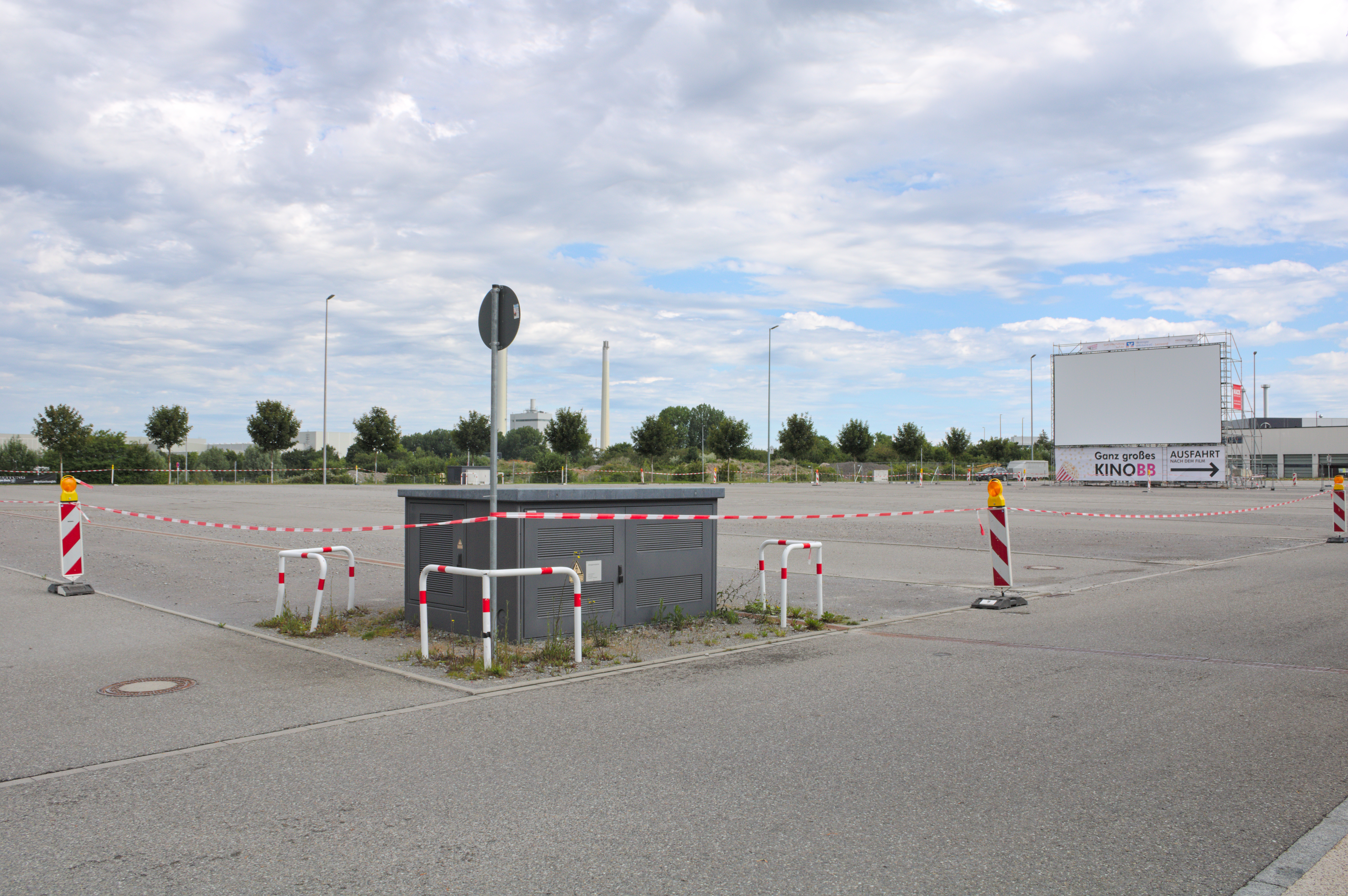 Drive-in_theater_Boeblingen_Flugfeld_2020 in Böblingen